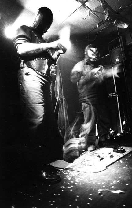 GX Jupitter-Larsen performing in Kyoto Japan, 1999.